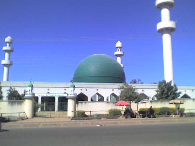 CENTRAL MOSQUE JOS NIGERIA